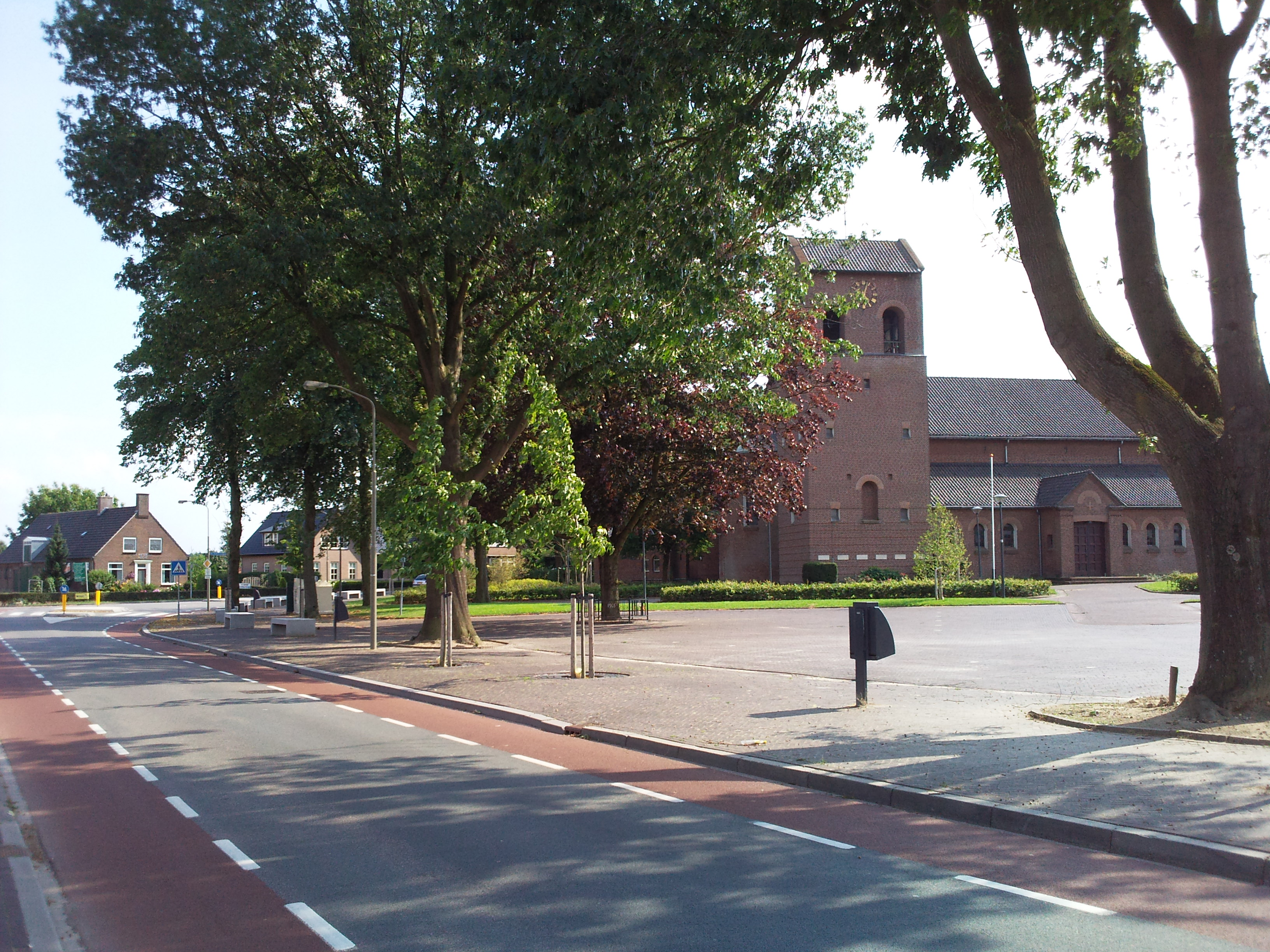 Church St. Antony and road in Breedeweg, NL